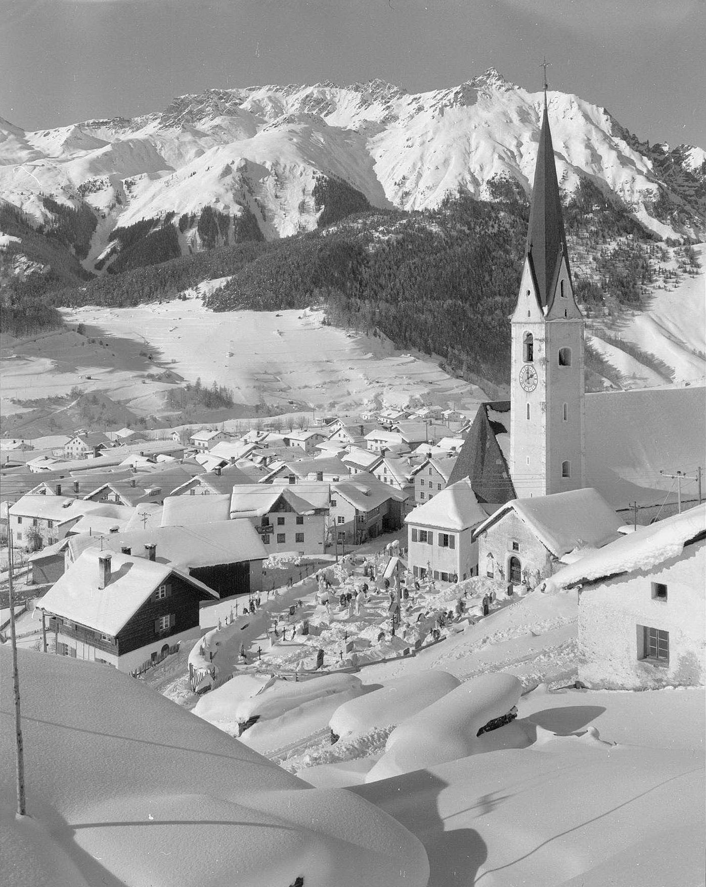 Nauders in Tyrol with Piz Mundin and Piz Alpetta in the Background. 1968. Sammlung Risch-Lau